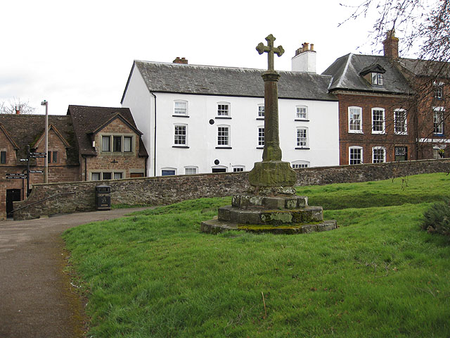 Plague cross in St Mary's parish churchyard, Ross-on-Wye, Herefordshire, with houses in Church Street in the background